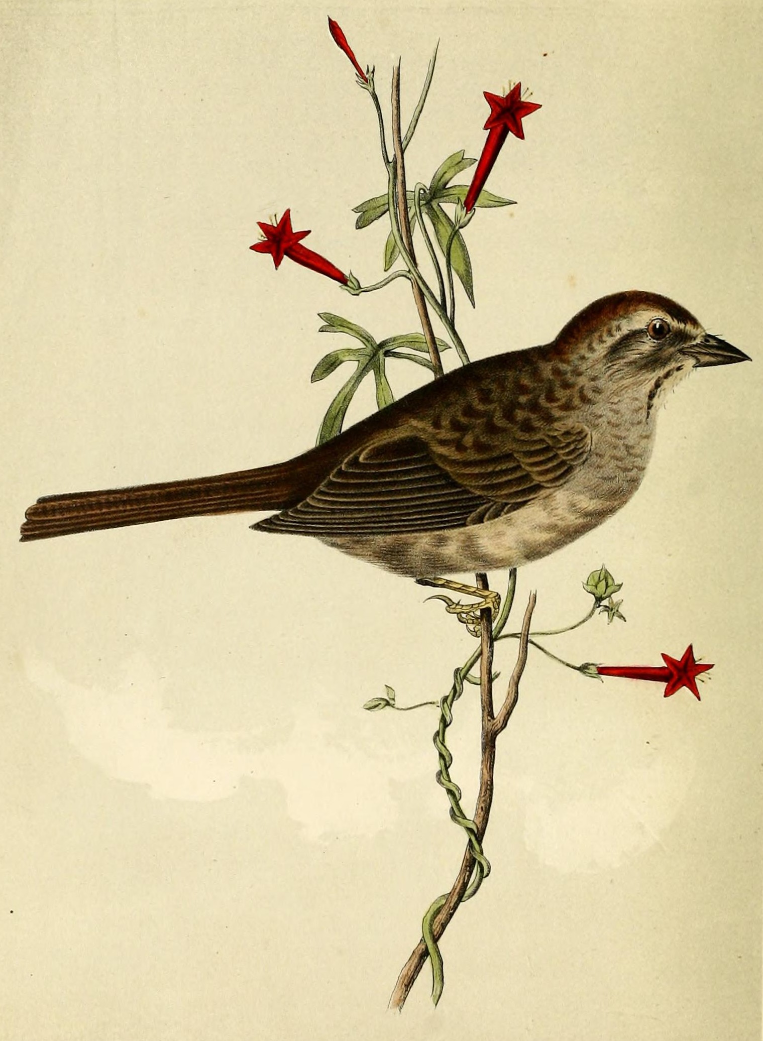 Ammodromus ruficeps = Aimophila ruficeps (Rufous-crowned Sparrow)